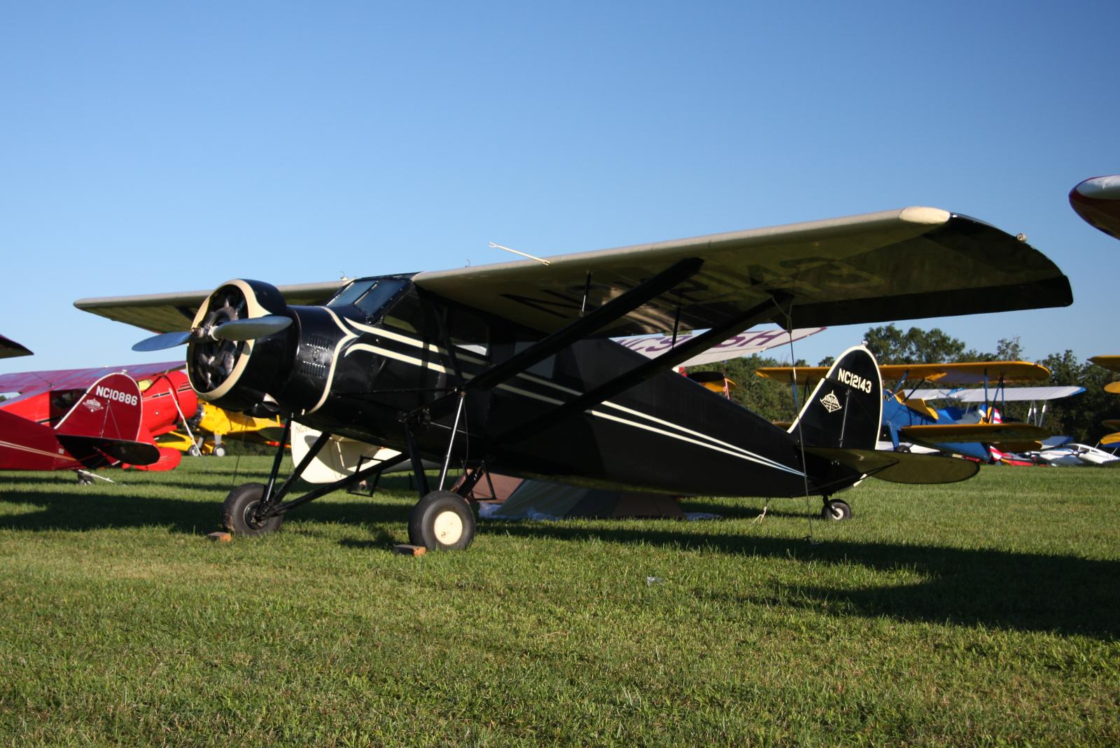 1931 Stinson JR. S C/N 8201